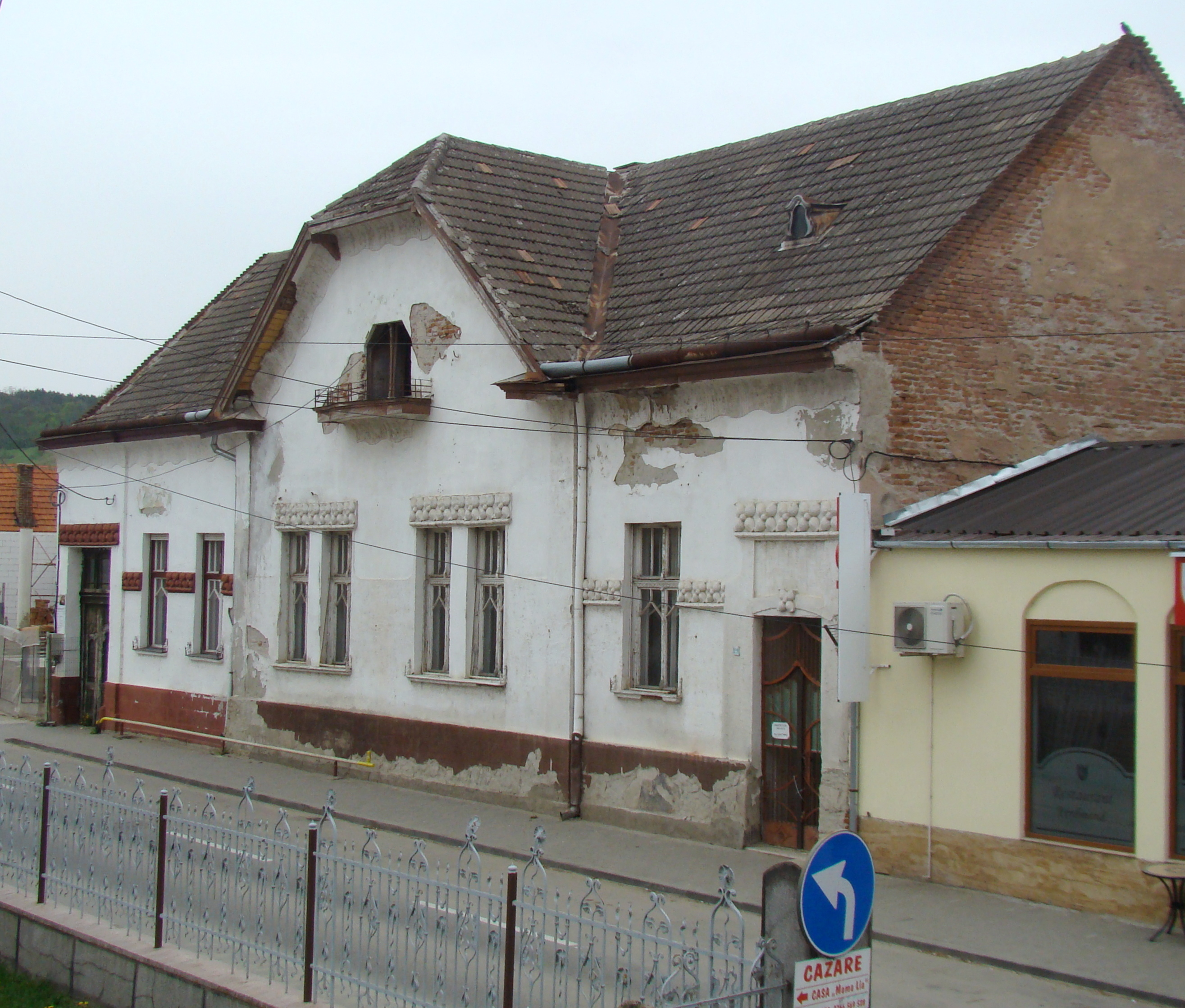 Churches street in Hațeg, Hunedoara county, Romania